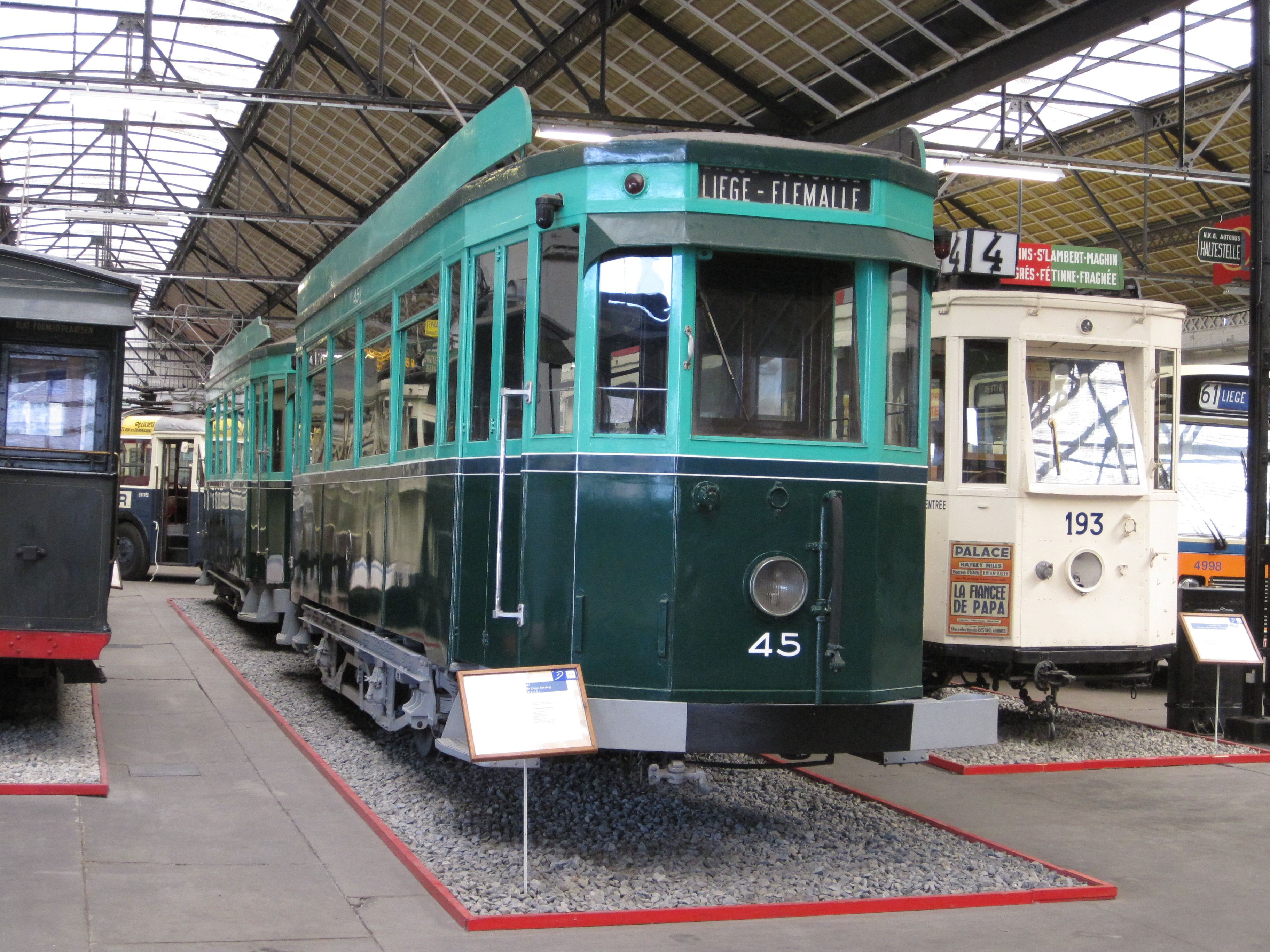 RELSE 45